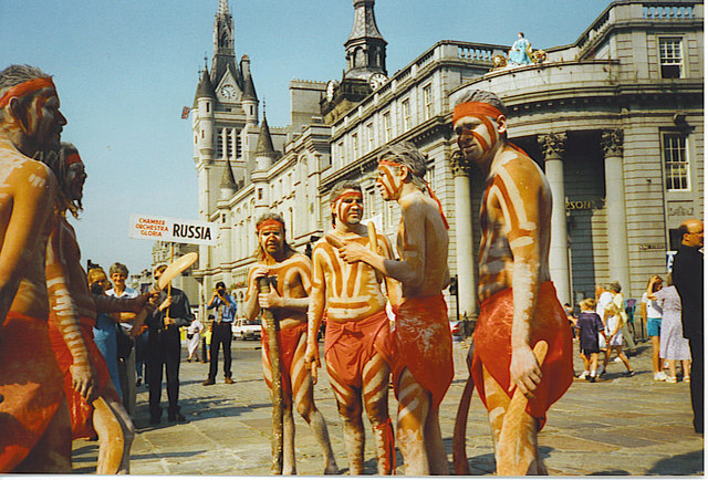 Aberdeen International Youth Festival - Before the Parade